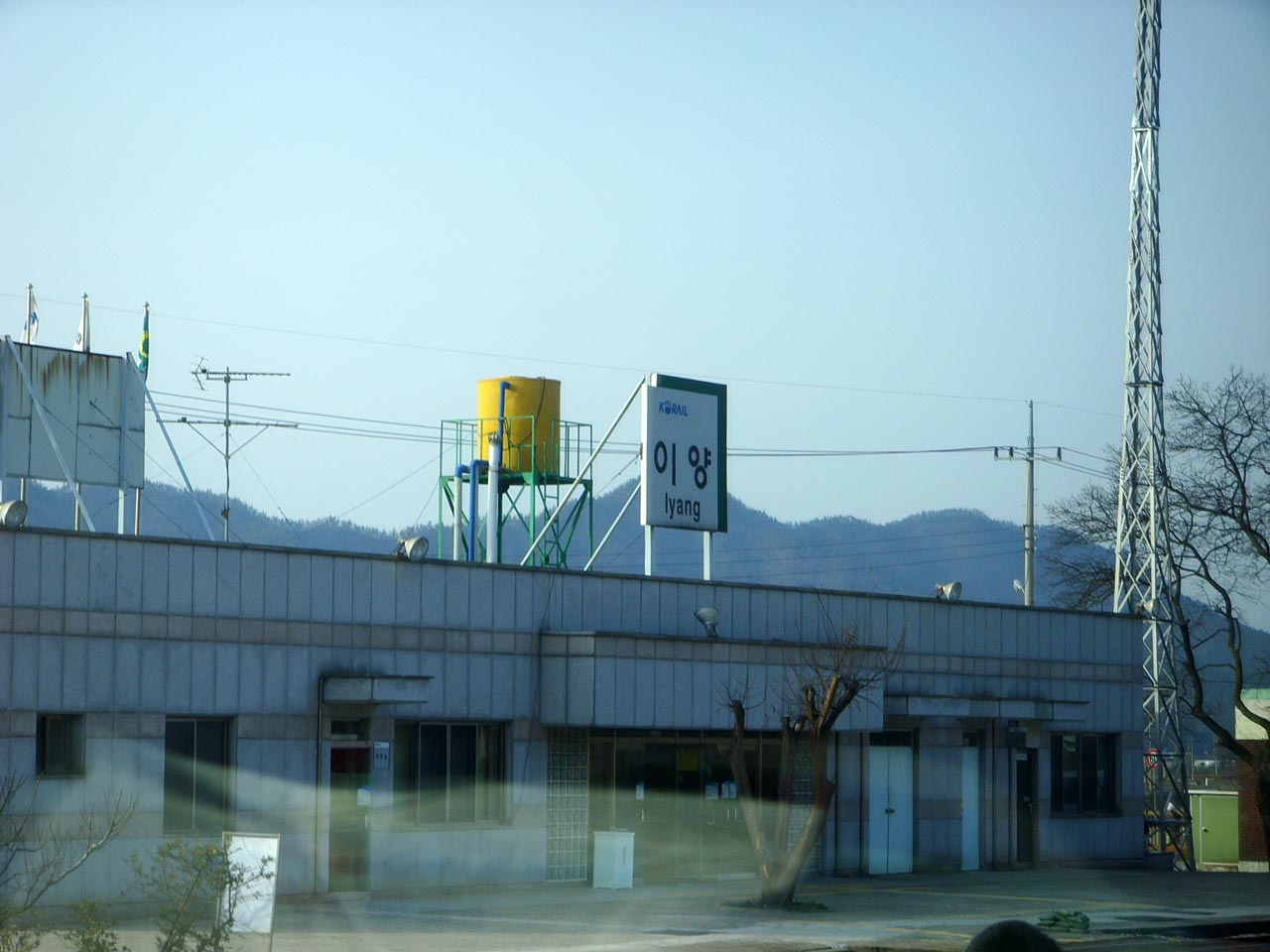 Iyang Station (Gyeongjeon Line, Oryu-ri, Iyang-myeon, Hwasun-gun, Jeollanam-do, South Korea)